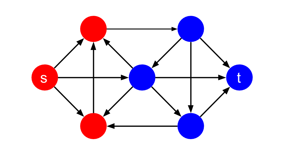 Minimum s-t cut